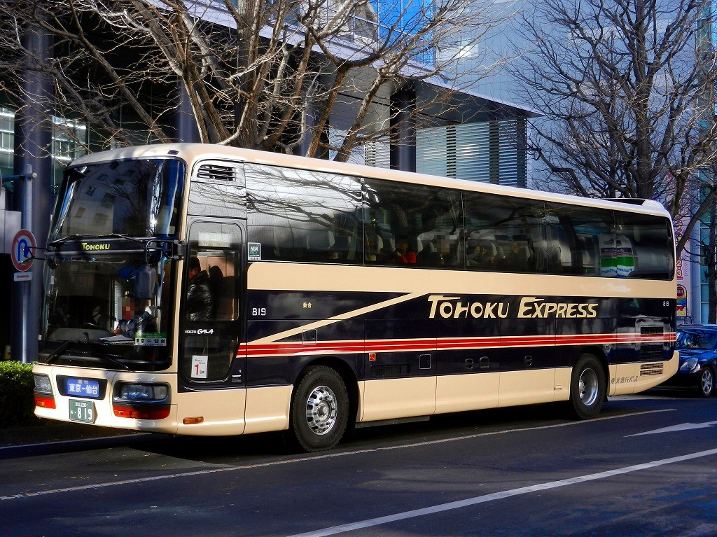 Tohoku Express bus Isuzu Gala2000 GHD(KL-LV774R2) highwaybus "Newstar"(Tokyo-Sendai)